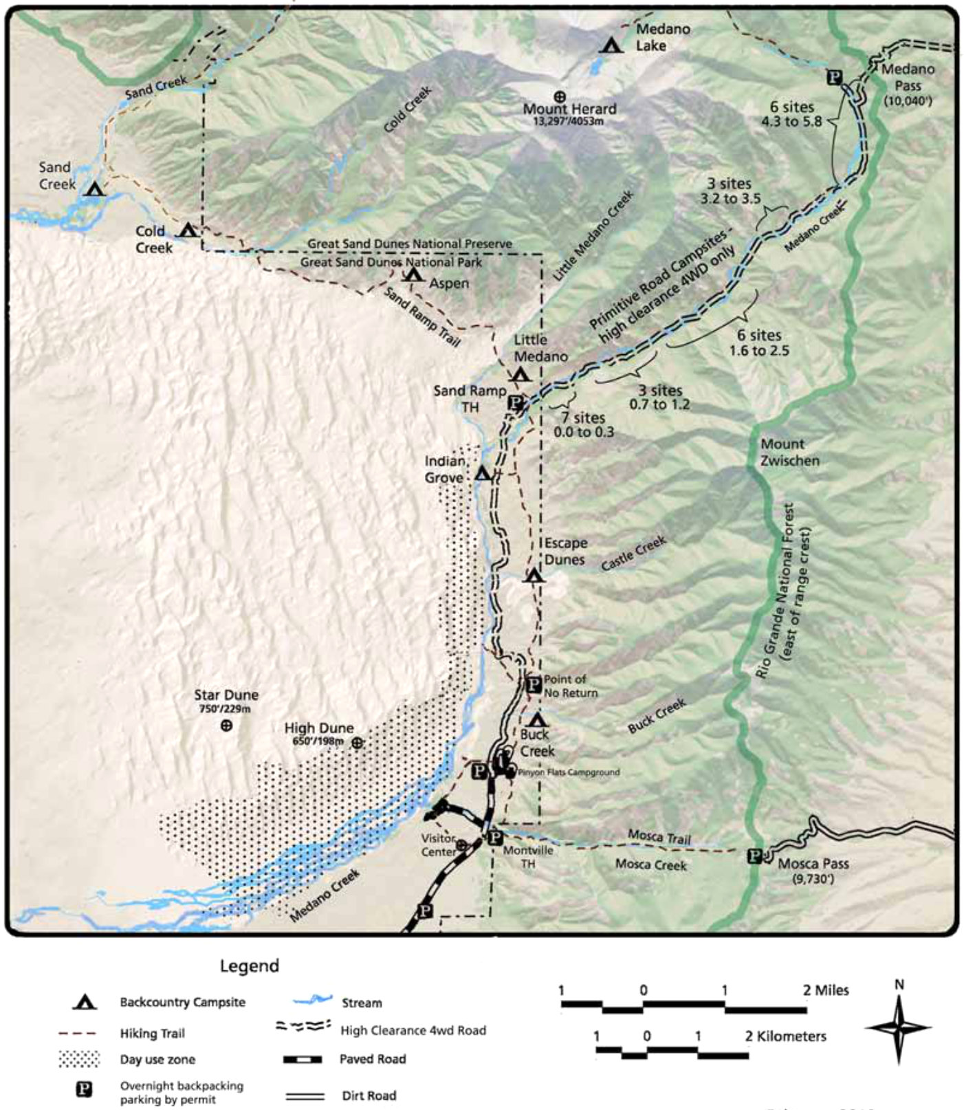 The Great Sand Dunes backcountry map shows backcountry campsites and trails into the Sangre de Cristo Mountains as well as those that follow the boundaries of the dune field.